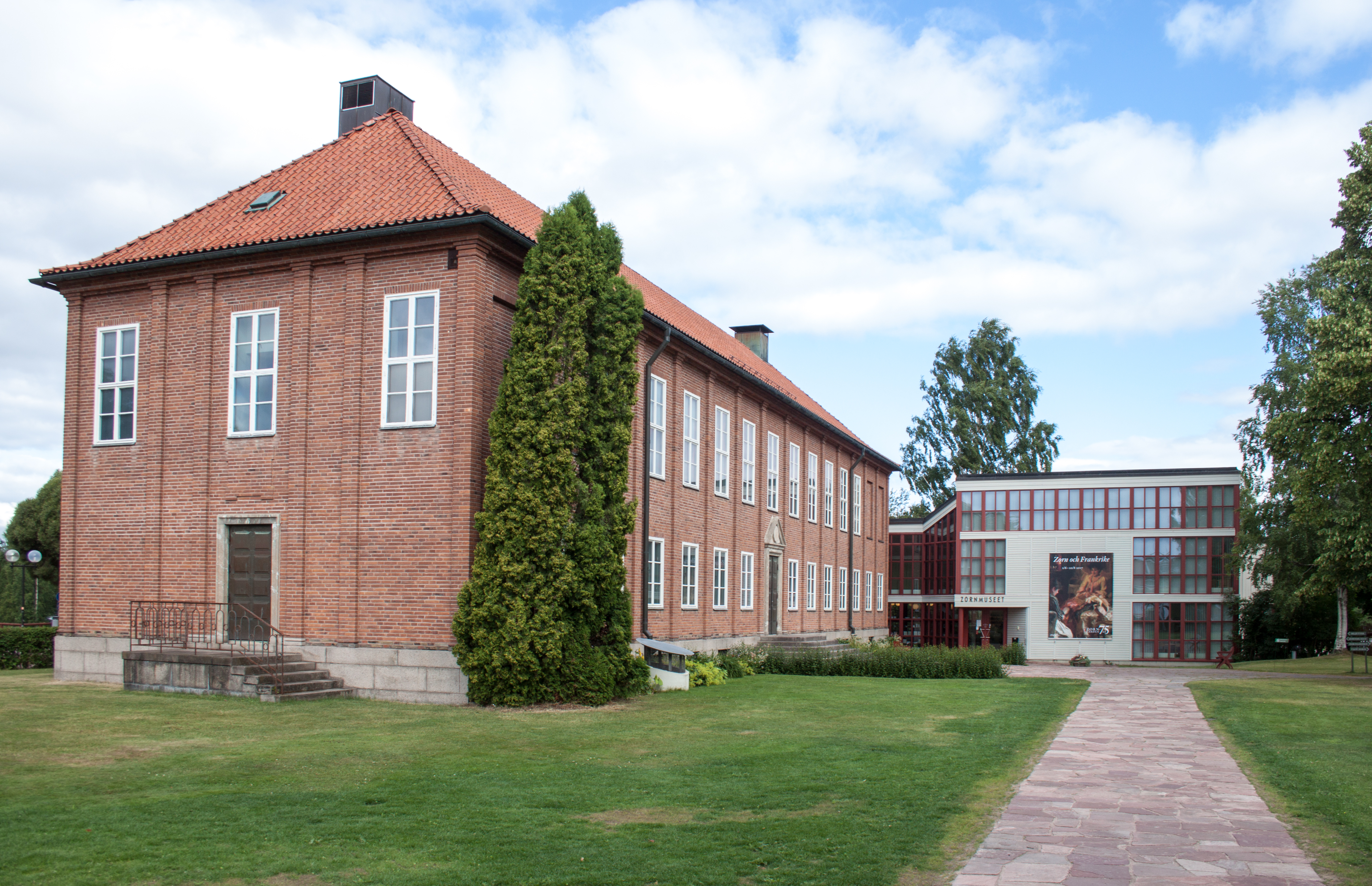 Entrance of Zornmuseetlabel QS:Len,"Entrance of Zornmuseet" label QS:Lhu,"Bejárat a Zorn Múzeumba"